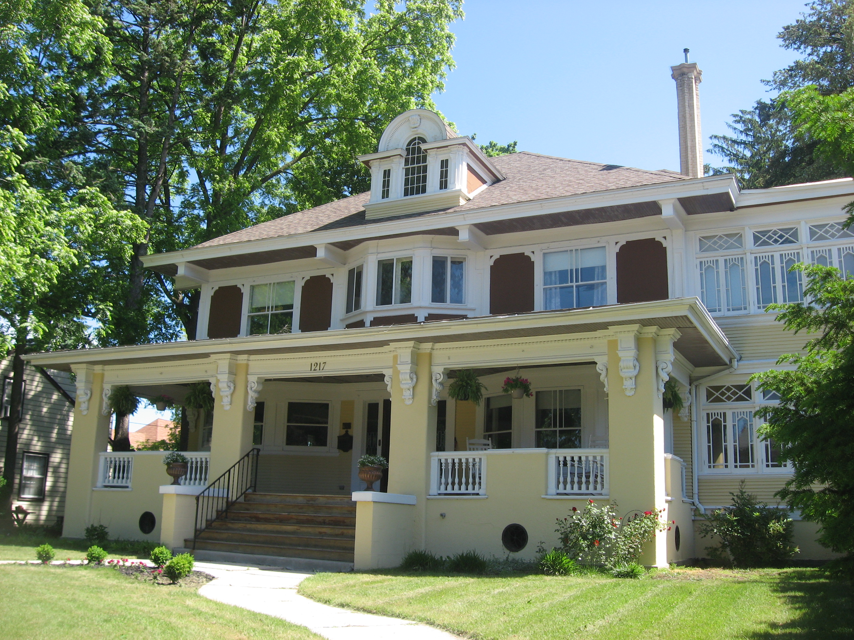 Front of the Francis H. Morrison House, located at 1217 Michigan Avenue in LaPorte, Indiana, United States. Built in 1904, it is listed on the National Register of Historic Places.